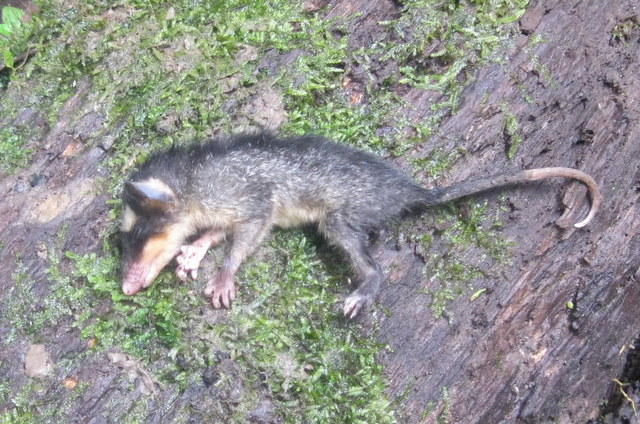 A young Anderson´s Four-eyed Opossum from PNN Amacayacu, Colombia